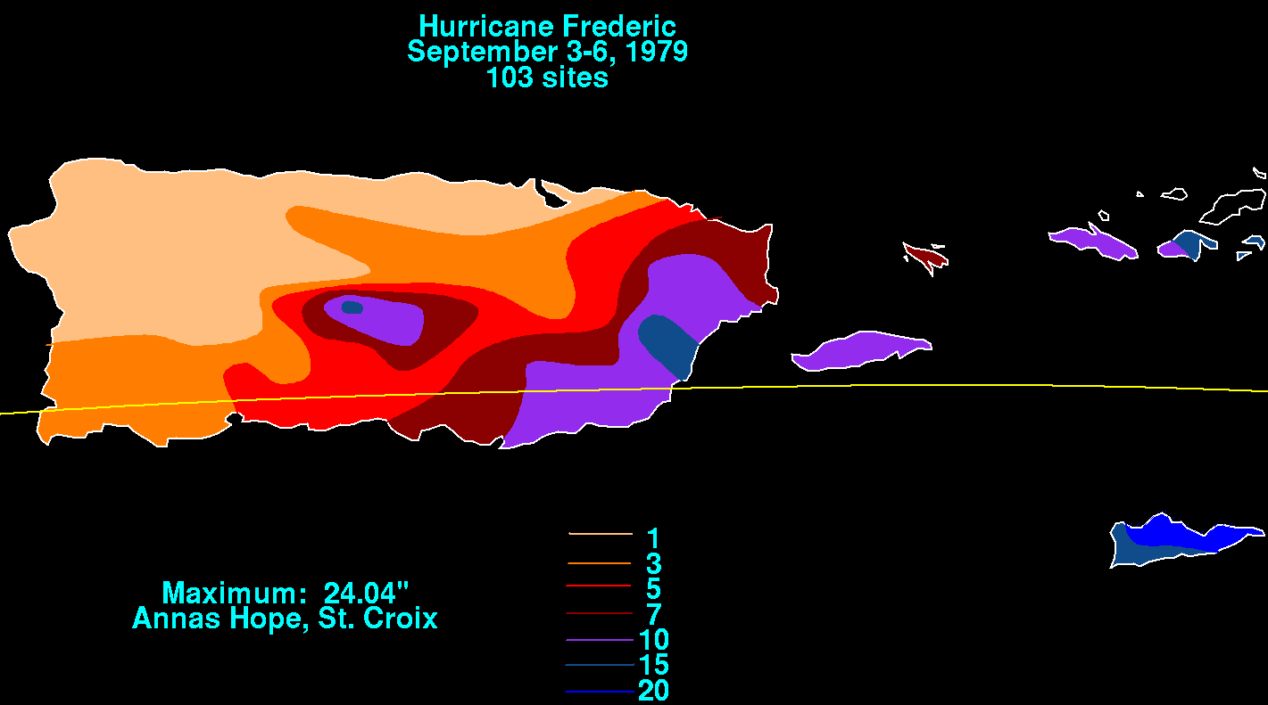 Storm total rainfall map of Hurricane Frederic in Puerto Rico during September 1979.